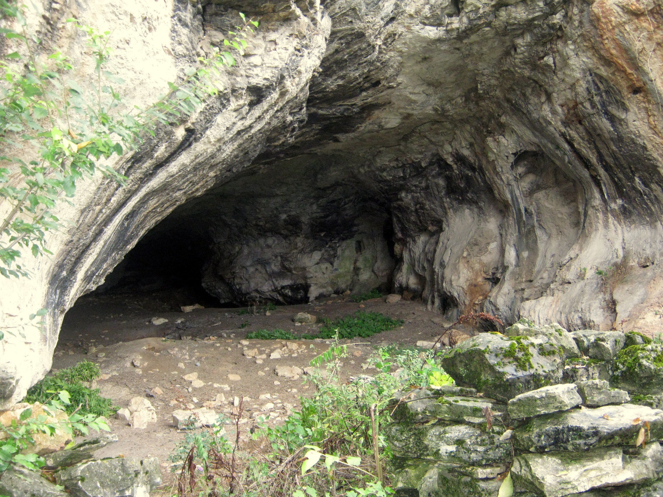 The entrance of Samuilitsa cave - one of the most important Middle Palaeolithic sites in Bulgaria.